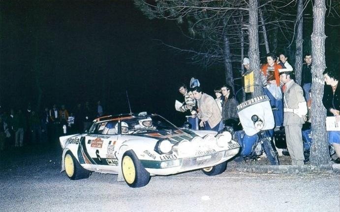 Raffaele "Lele" Pinto and co-driver Arnaldo Bernacchini on a Lancia Stratos HF sponsored Alitalia at the 1976 Rallye Sanremo.